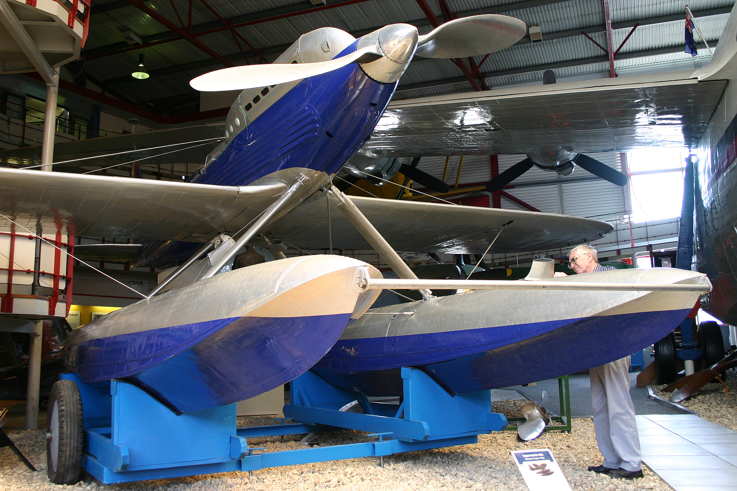 Built as an S.6. Entered in the 1929 Schneider Trophy at Calshot. Disqualified when cut a corner. Later converted into an S.6A. Solent Sky Museum. Southampton. 14-6-2011